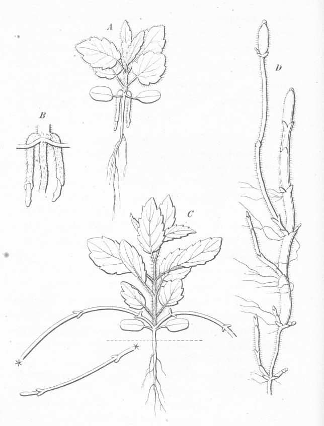 Stachys palustris; A. a seedling in May; the shoots in the coteledon axils are strongly bent downwards. B. magnification of these shoots to show their hairiness and long first internode. C. a somewhat older seedling with longer runners. D. a branched runner of a 1styear plantlet, beginning storage thickening.